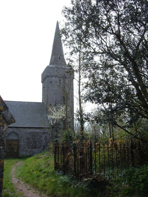 Steeple of St Daniel's parish church, Pembroke, Pembrokeshire